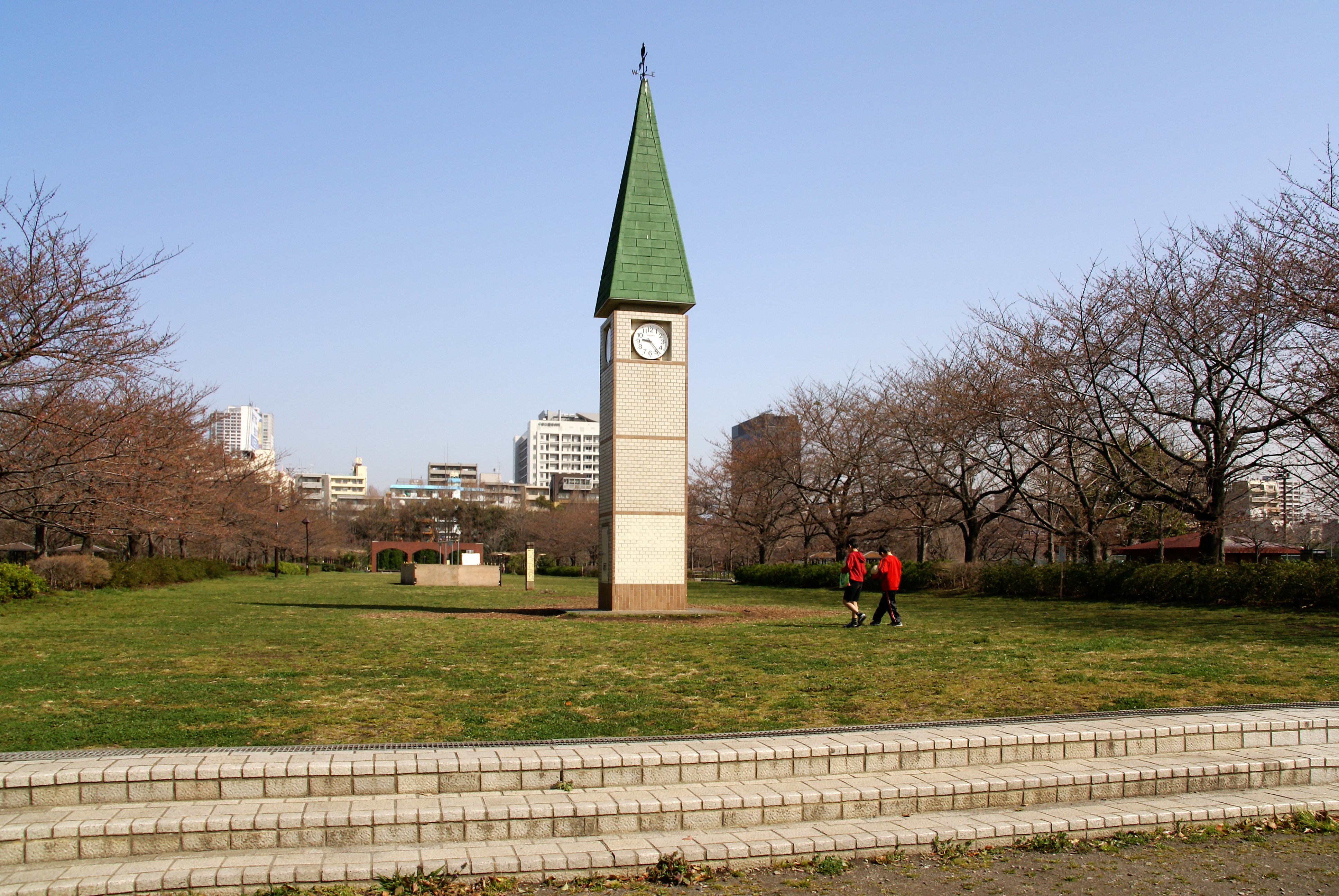 Sarue Park in Koto-ku, Tokyo, Japan